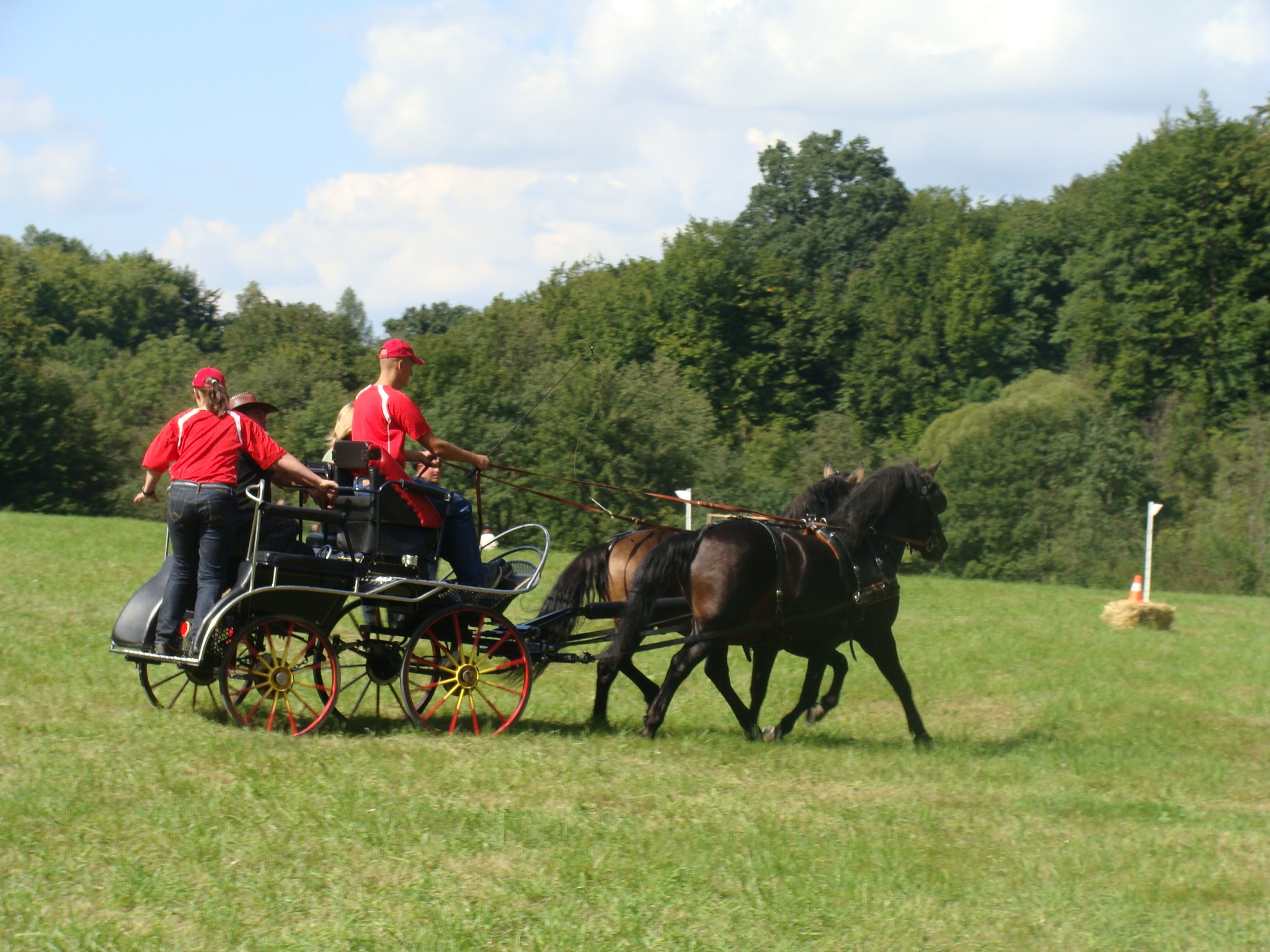 The Regional Pony Rally in Rudawka Rymanowska, (pl.) Regionalny Championat Konia Huculskiego will attract riders and their ponies from several states to compete in Tetrathlon, Show Jumping, Dressage, and Eventing. Included with park admission.